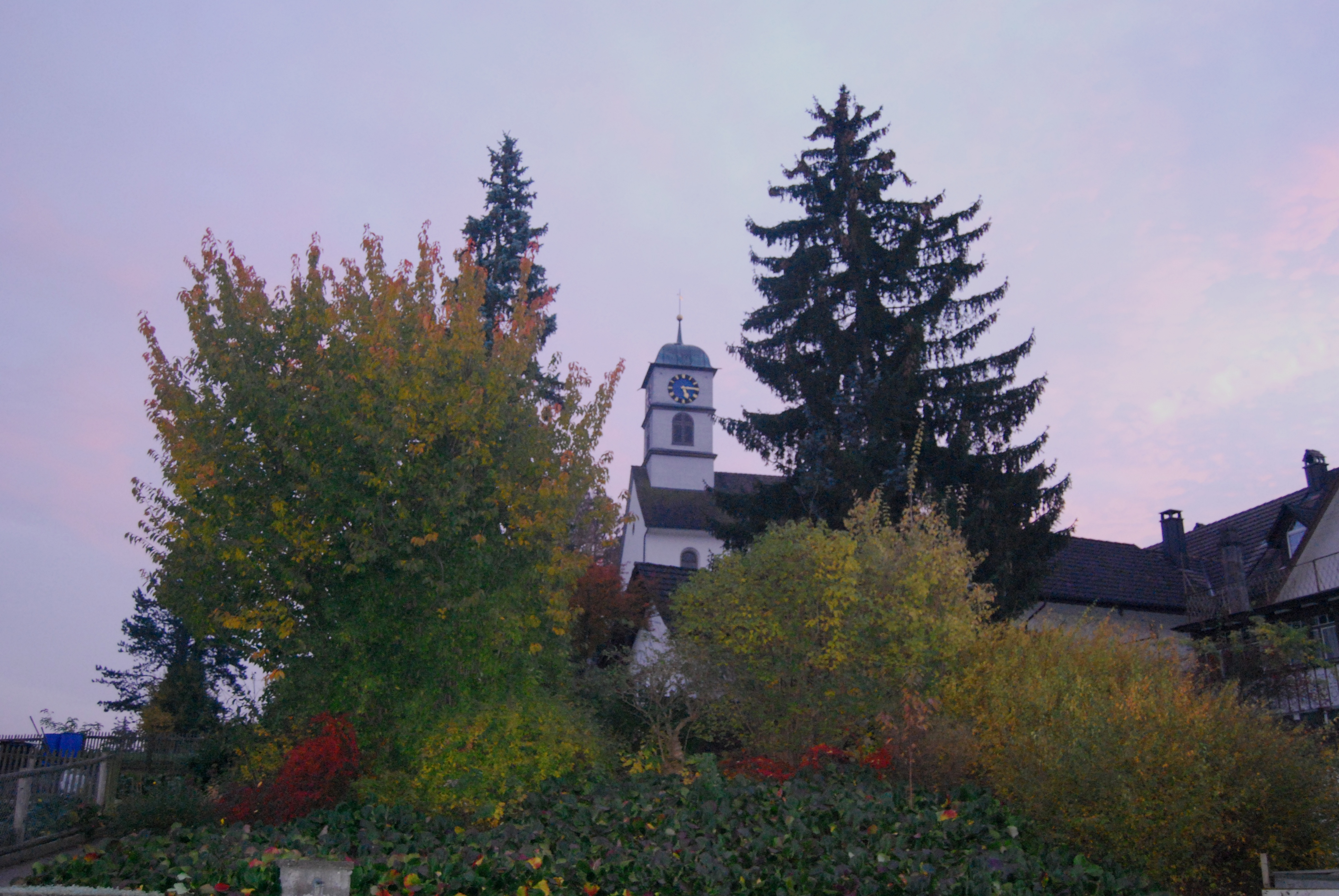 Church of Henggart, canton of Zürich, SwitzerlandEsperanto: Preĝejo de Henggart, Kantono Zuriko, Svislando